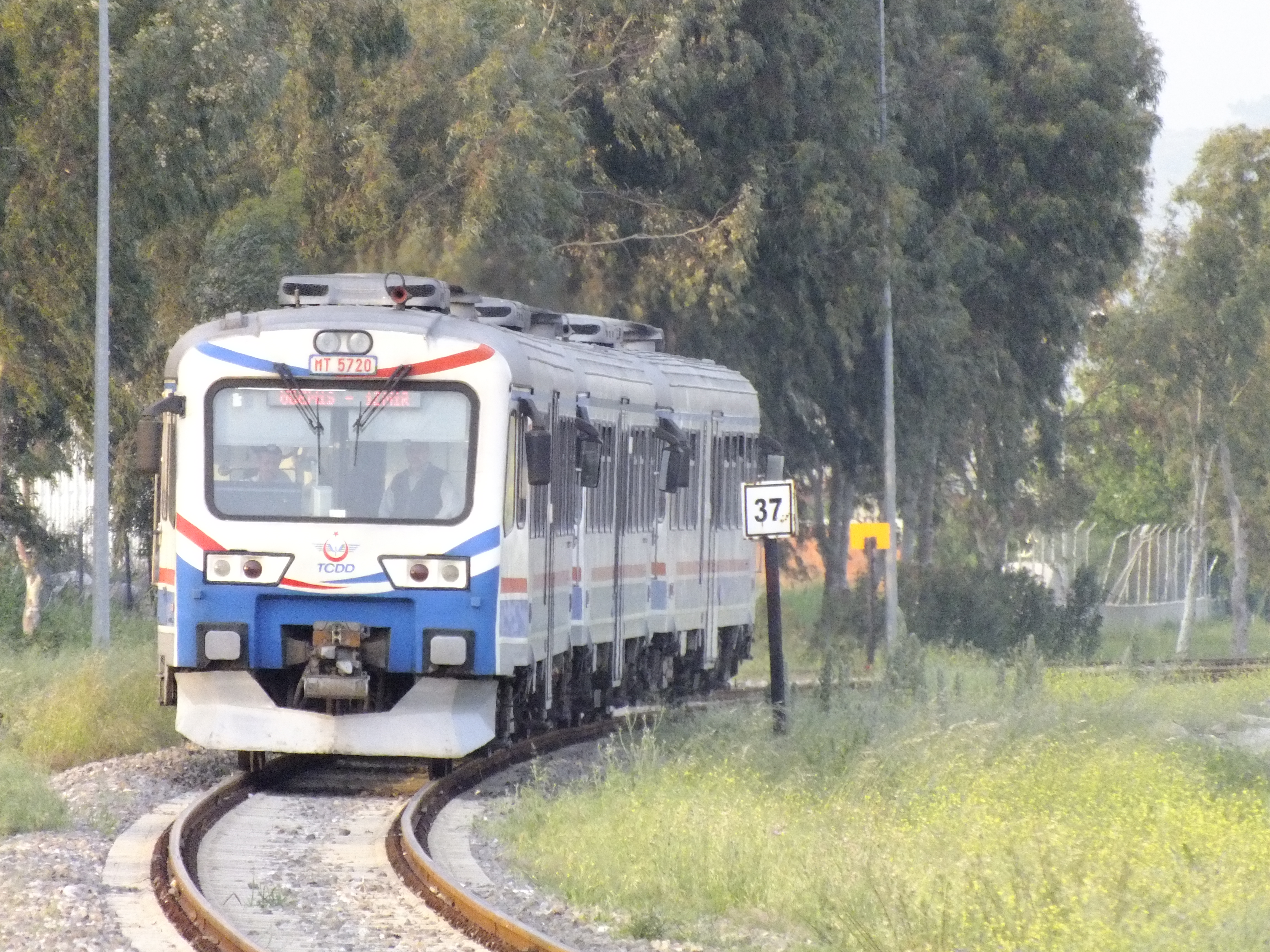 A northbound Odemis regional train arrivng at Pancar station.